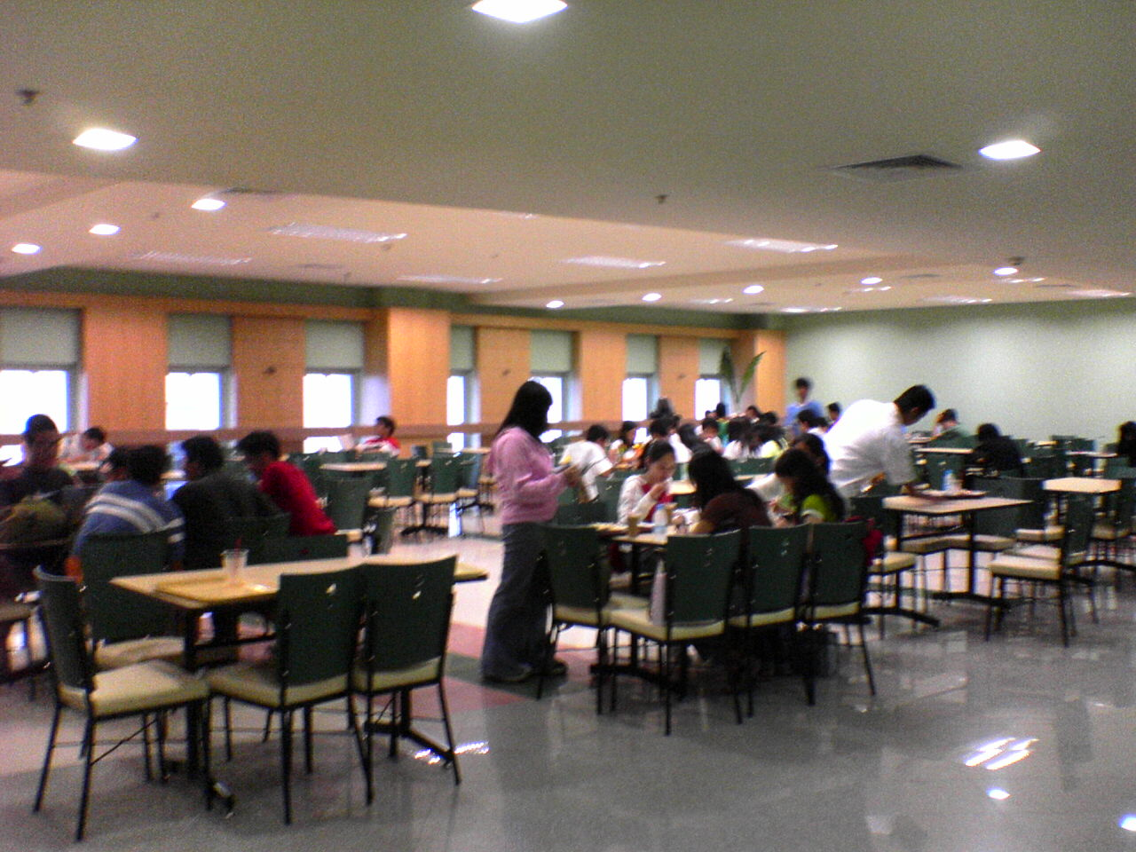 Cafeteria of Gonzalez Hall. Self-taken.